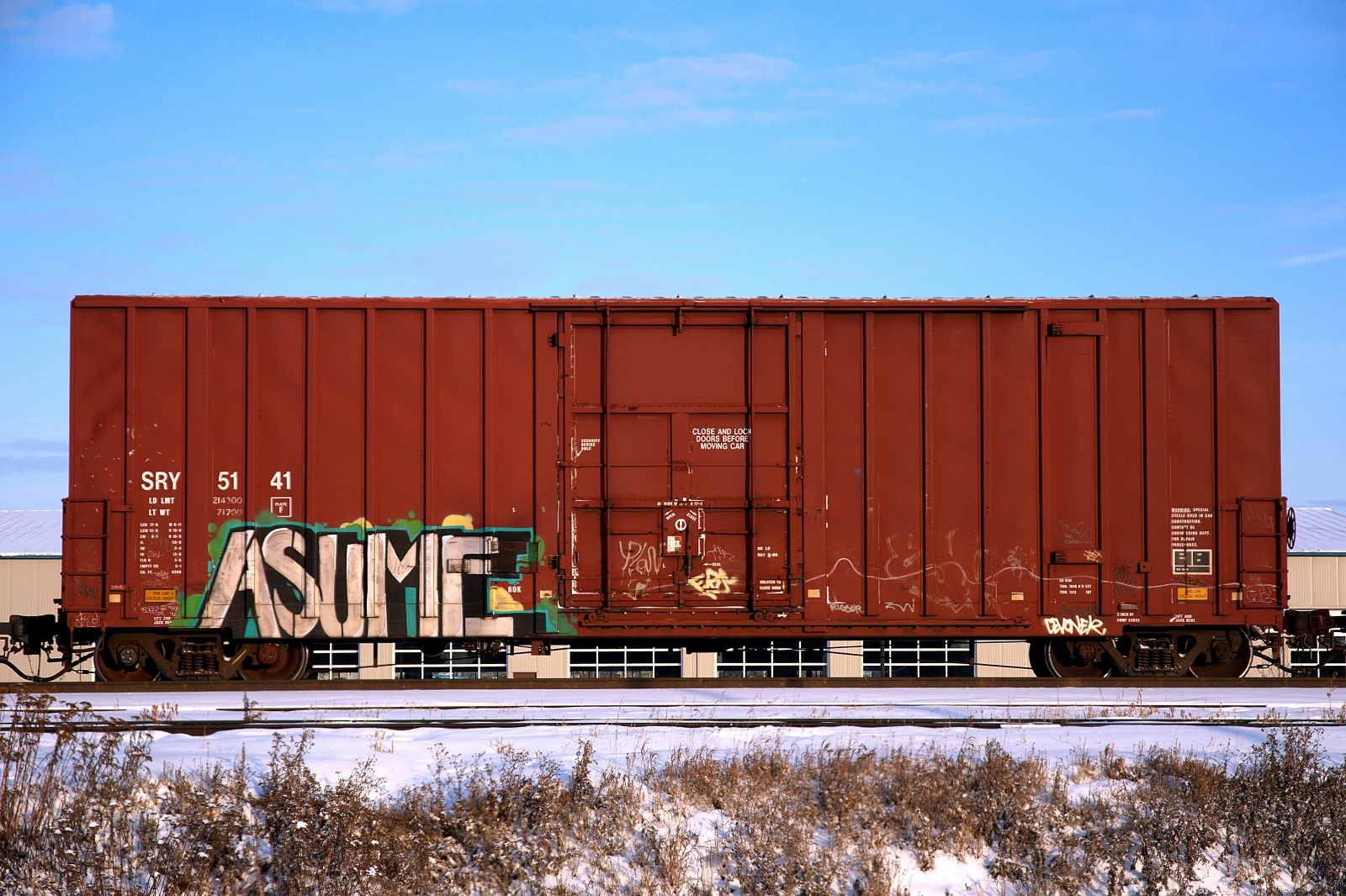 90² - Competent At Tagging Boxcars, Spelling, Not So Much. (for the Southern Railway of British Columbia)